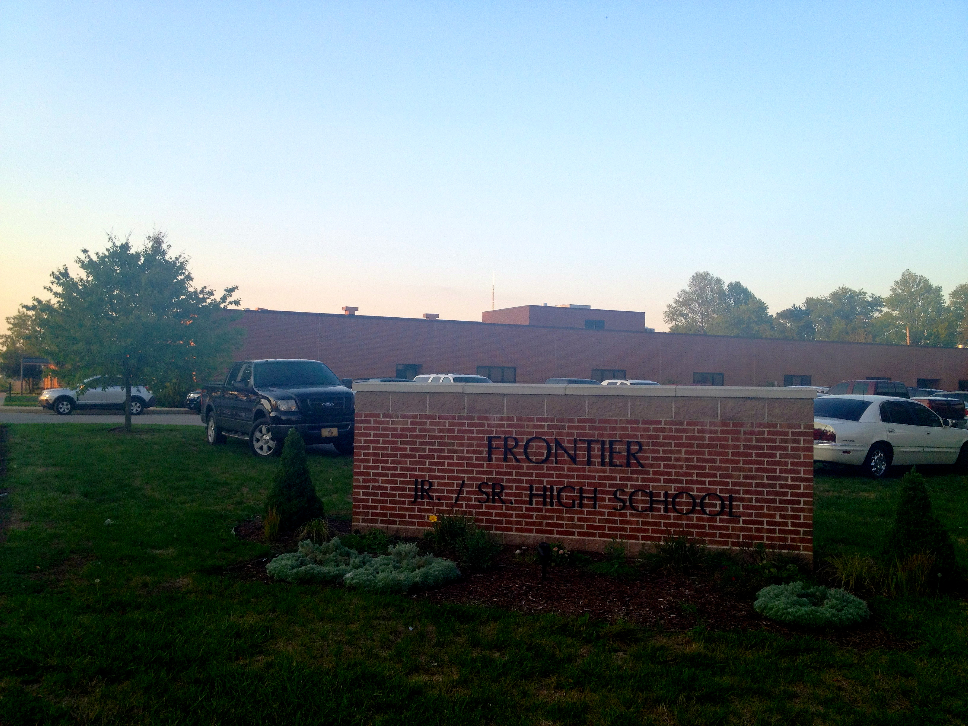 A north-facing view of Frontier Jr./Sr. High School in Chalmers, Indiana.